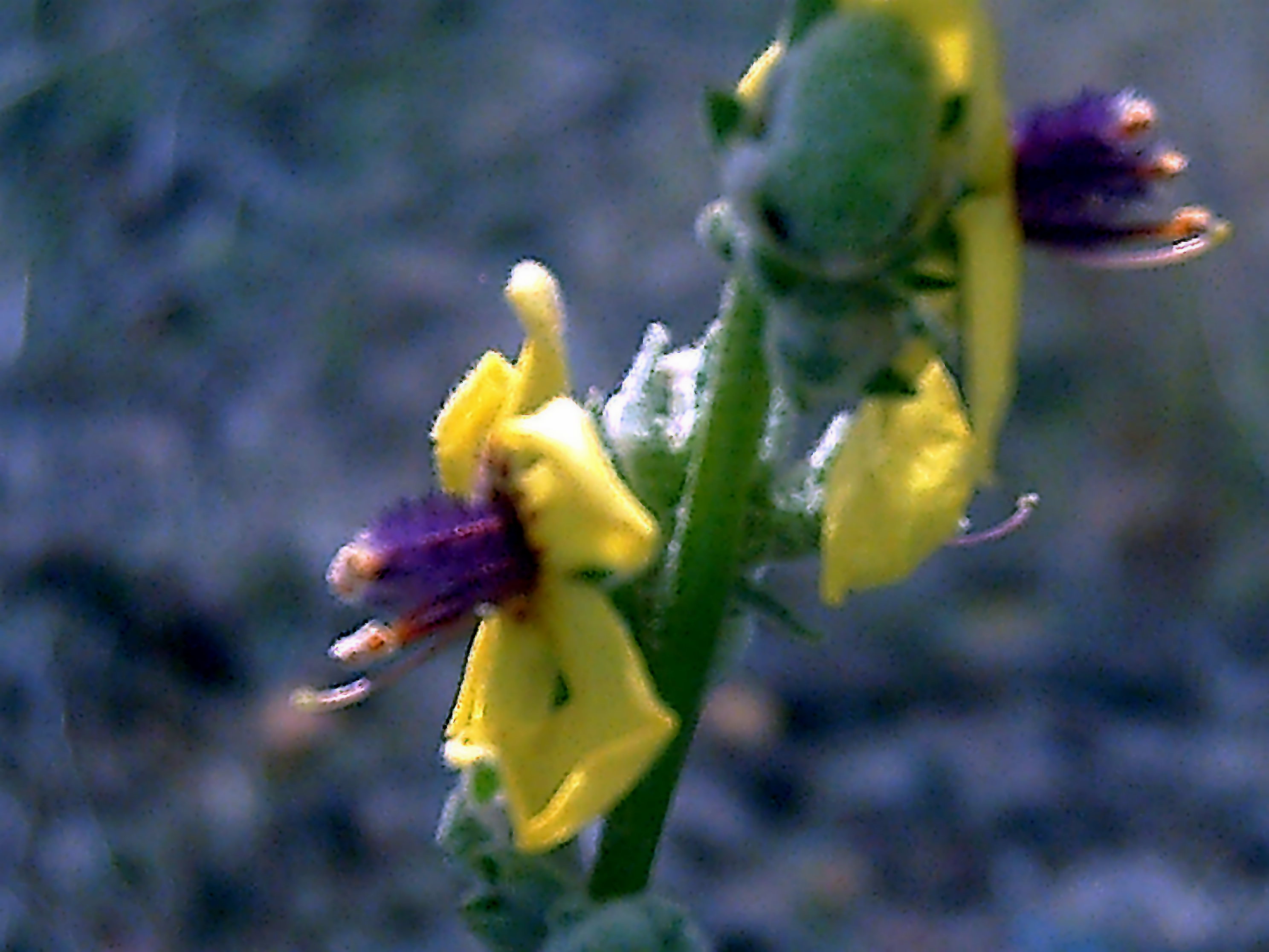 Verbascum rotundifolium flowers close up Dehesa Boyal de Puertollano, Spain